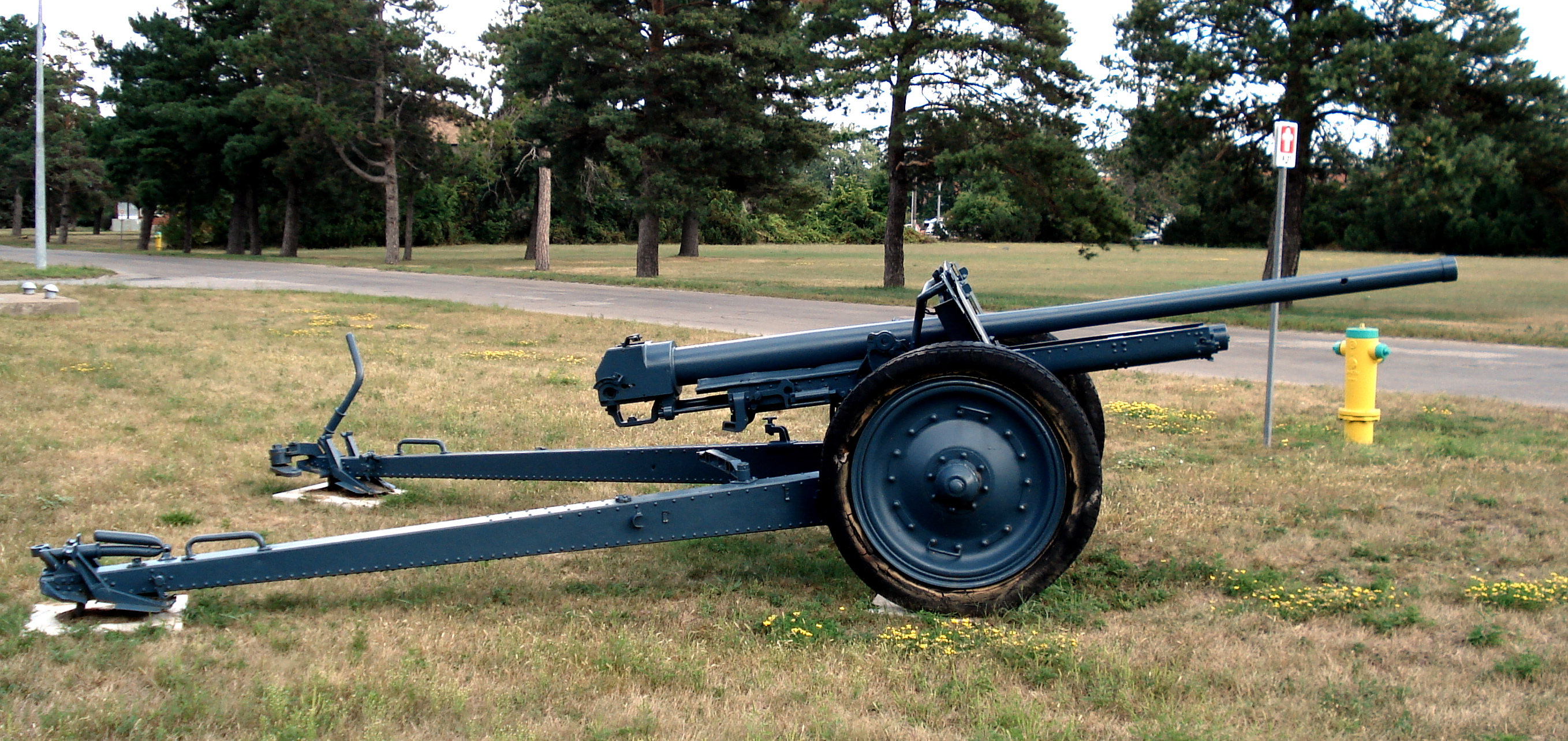 German Pak 36(r) 76,2 mm anti-tank gun, obtained from converting captured Soviet F-22 76 mm guns. This example is displayed on the grounds of CFB Borden (Base Borden Military Museum). Photo taken on August 18, 2006. Source: Photo by me, User:Balcer.